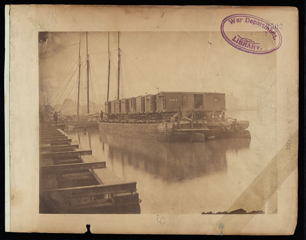 Transportation on the Potomac. Cars loaded at Alexandria can be carried on barges or arks to Aquia Creek, and sent to stations where the Army of the Potomac is supplied, without break of bulk. Medium: 1 photographic print : salted paper. Notes: No. 1 (handwritten) and 2502 (stamped) on mount. Title from item. Forms part of Civil War photos, military construction and transportation in Northern Virginia and elsewhere / United States Military Railway Department (Library of Congress).